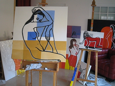 Studio of the Austrian painter Martina Schettina, which is located in Langenzersdorf near Vienna, Austria